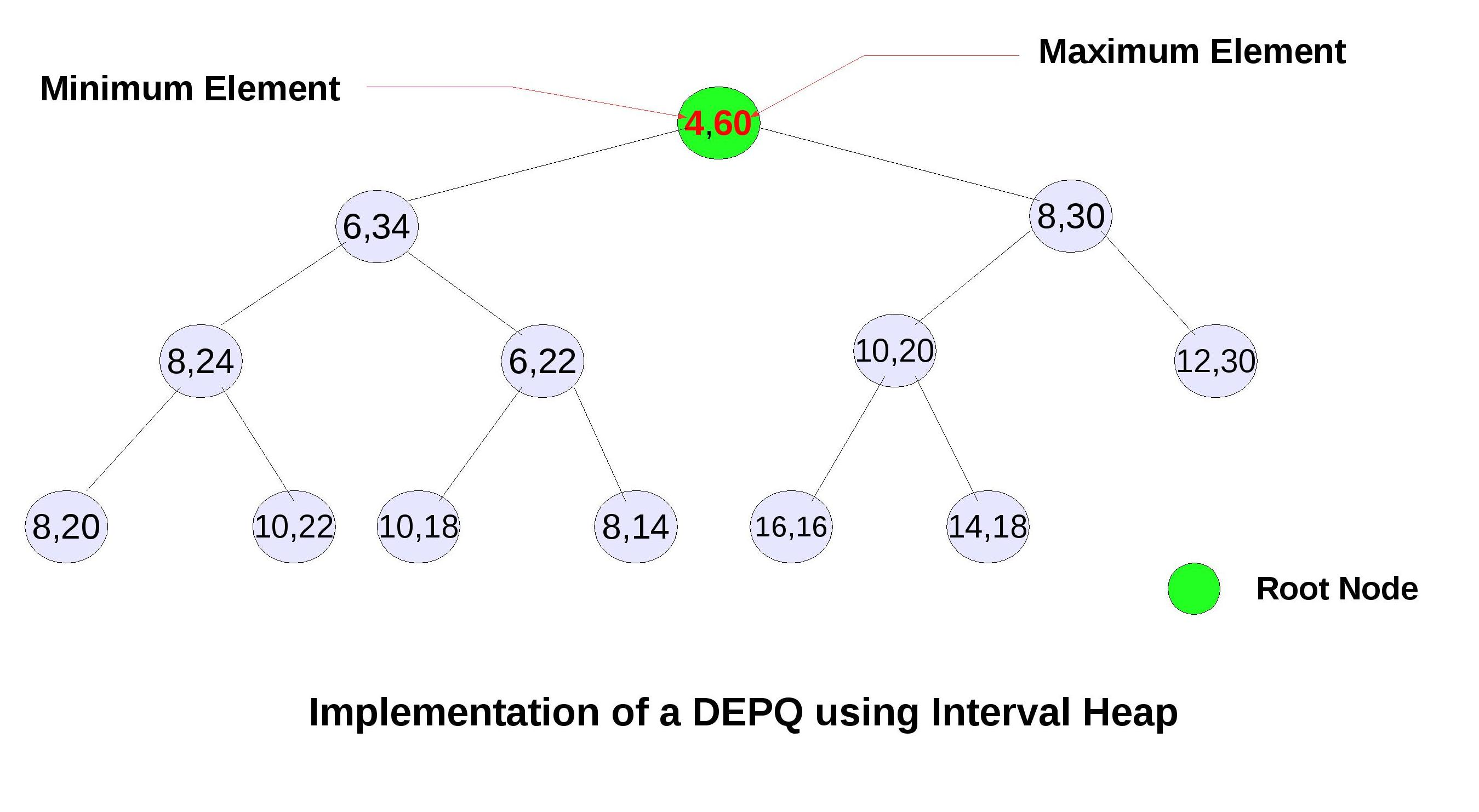 This is an implementation of Double ended priority queue(DEPQ). It shows the minimum and maximum elements in the interval heap.